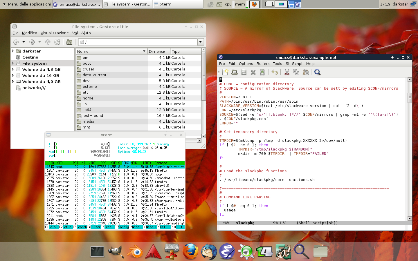 Slackware 14.0 screenshot with Xfce